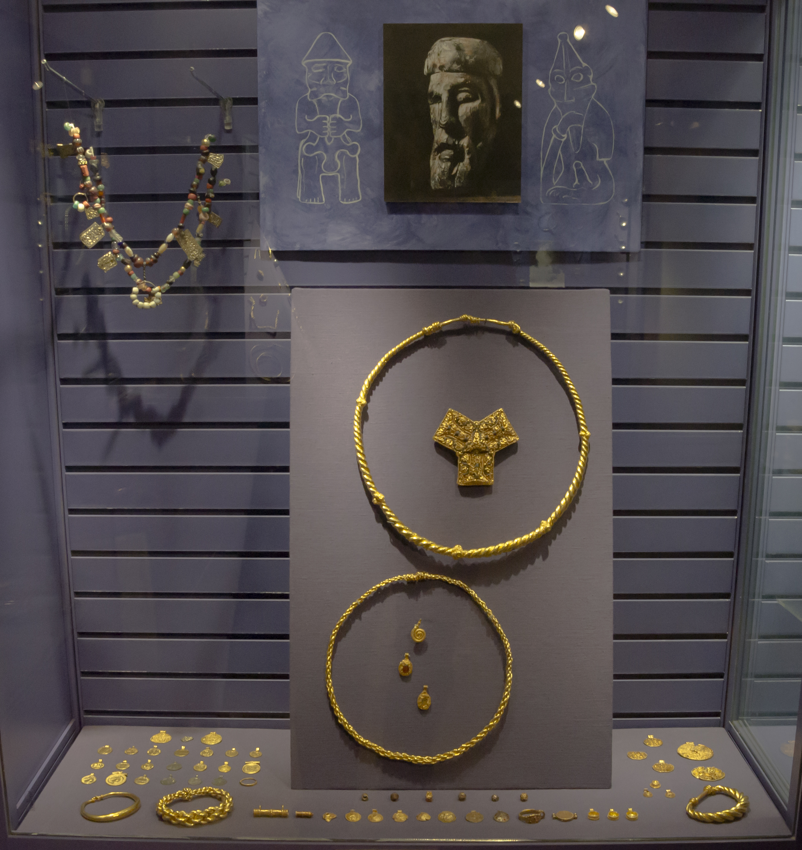 The gold treasure found at Hoen in Upper Eiker in 1834 by Halvor Torstensen Kvernmoen. It is the largest gold treasure ever found in Norway - 2.5 kilos of pure gold in the shape of coins and jewelry, as well as 200 pearls of glass and precious stones. It was probably assembled in Frankish lands in the 860s/870s.